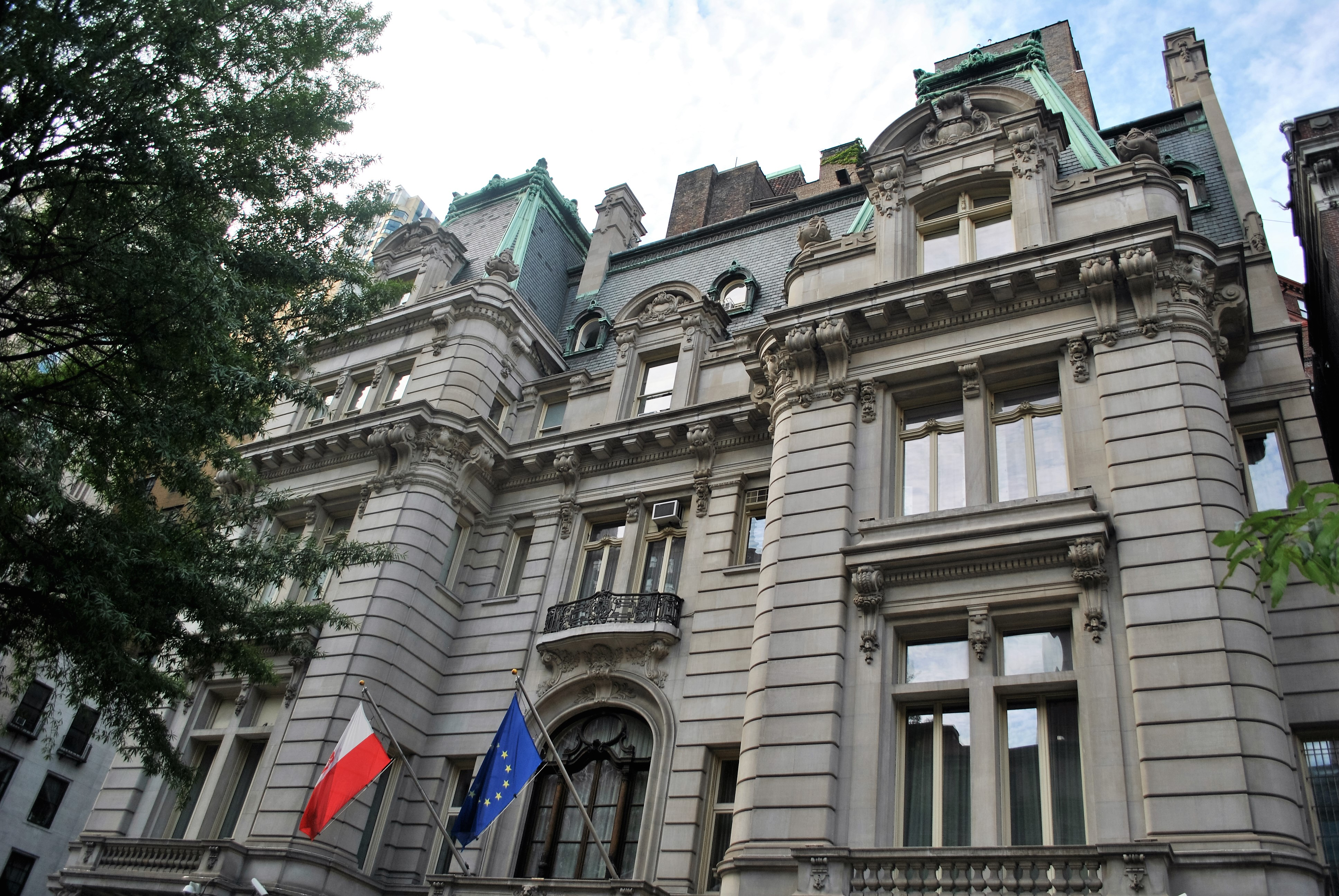 Image originally published in Queer Places: Retracing the Steps of LGBTQ people around the World Authored by Elisa Rolle